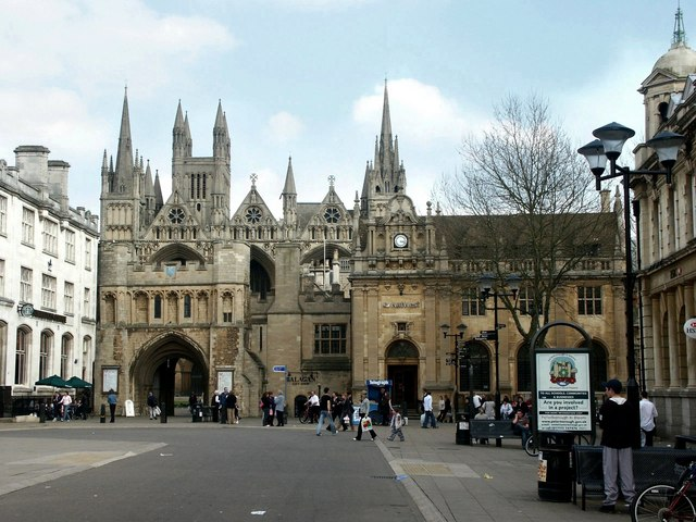 Cathedral Square, Peterborough To the right of the arch is the Nat West Bank. Extreme right is the HSBC Bank. In the background is The Cathedral Church of St Peter, St Paul and St Andrew. Behind me is the Guildhall and The Church of St John the Baptist. To the left of the arch is Starbucks.